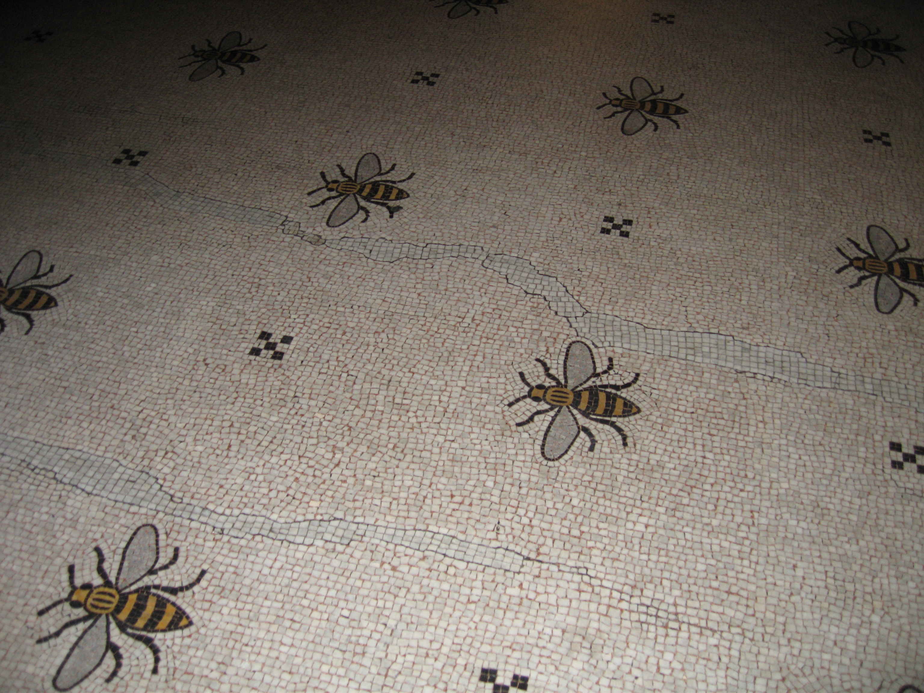 Floor in Manchester's Town Hall.